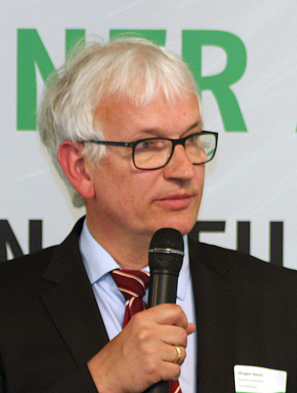 Jürgen Resch (Deutsche Umwelthilfe) This is a retouched picture, which means that it has been digitally altered from its original version. Modifications: cropped, colour-corrected, sharpened. The original can be viewed here: Nicole Maisch und Juergen Resch.jpg. Modifications made by Máel Milscothach.